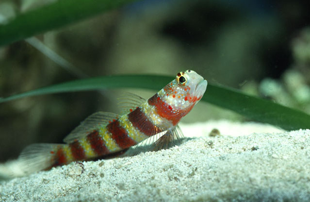 Wheelers Partnergrundel (Amblyeleotris wheeleri) fish of the Indo-Pacific Coral Reef Ecosystem National Museum of Natural History. Fish species: Amblyeleotris wheeleri Wheeler’s goby Can be seen perching below the clam or poking out of a hole. Photo by: Carl C. Hansen Neg # 96-10756